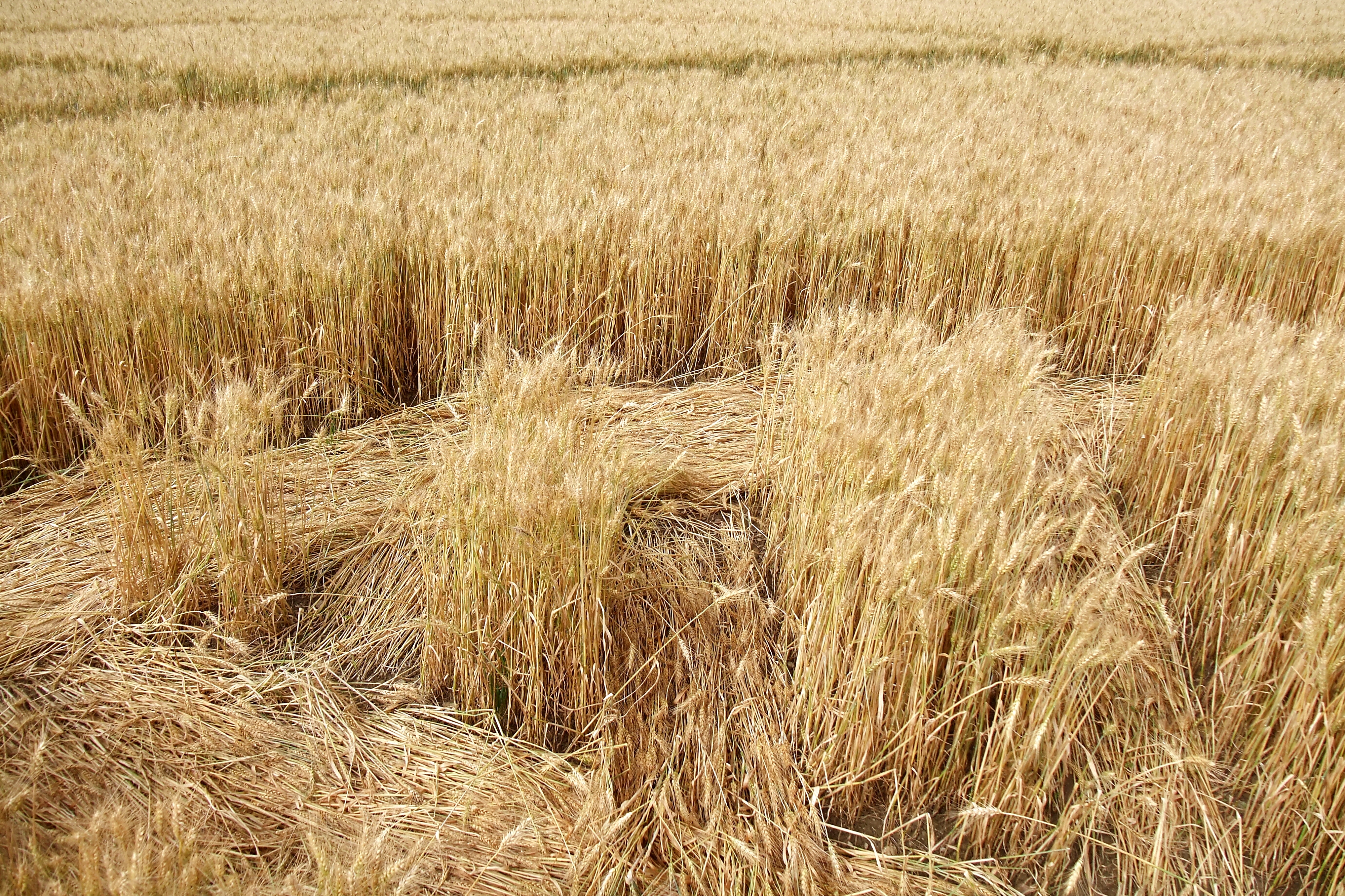 Swiss Crop Circle Detail of a crop circle between Steckborn and Hörhausen, discovered in the early morning of the 12th July 2009. Switzerland, July 25, 2009.